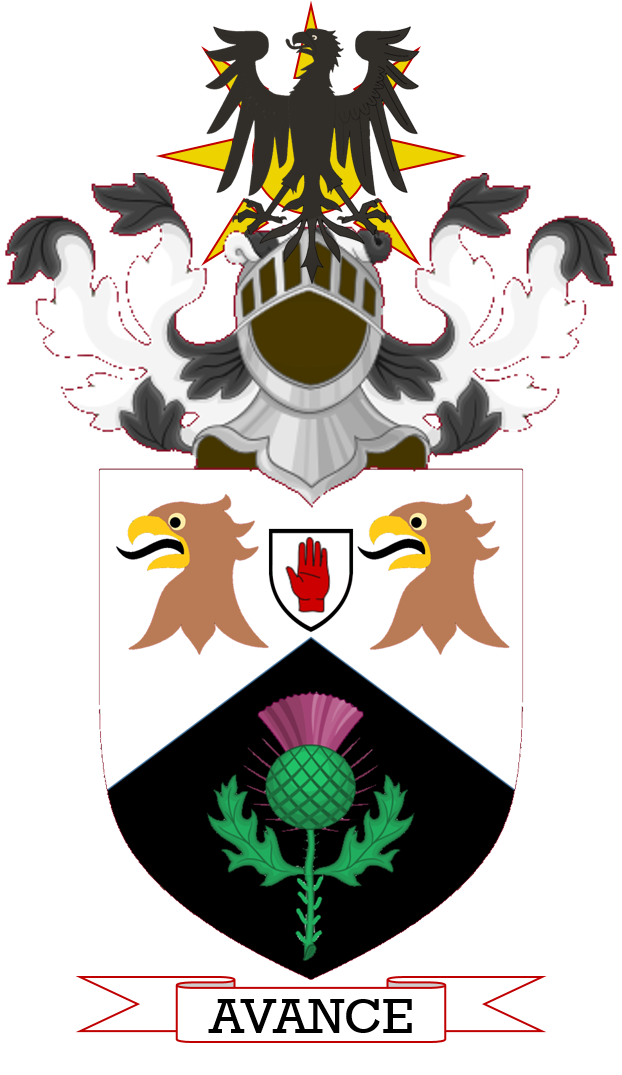 The armorial achievement of the Birkmyre baronets of Dalmunzie